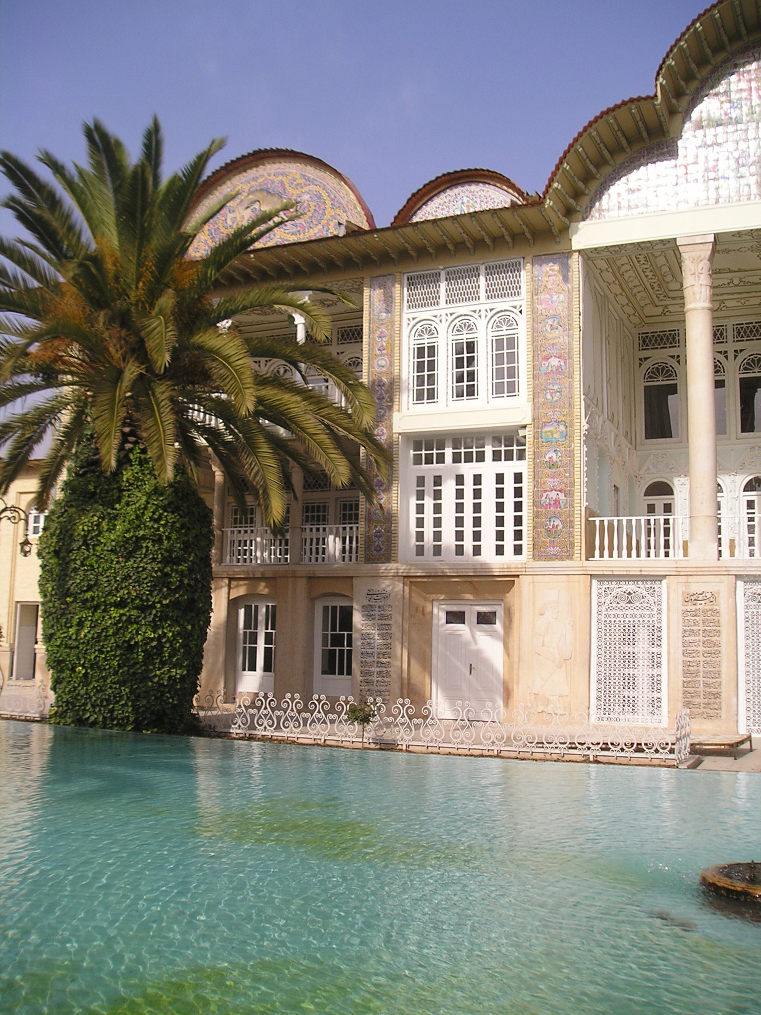 Ghavam—Qavam Garden (house) and Eram Garden pool, Shiraz, Iran. 2004. Photo by Bertil Videt